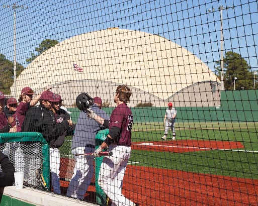 The geodesic Gold Dome houses Centenary basketball, volleyball and gymnastics.